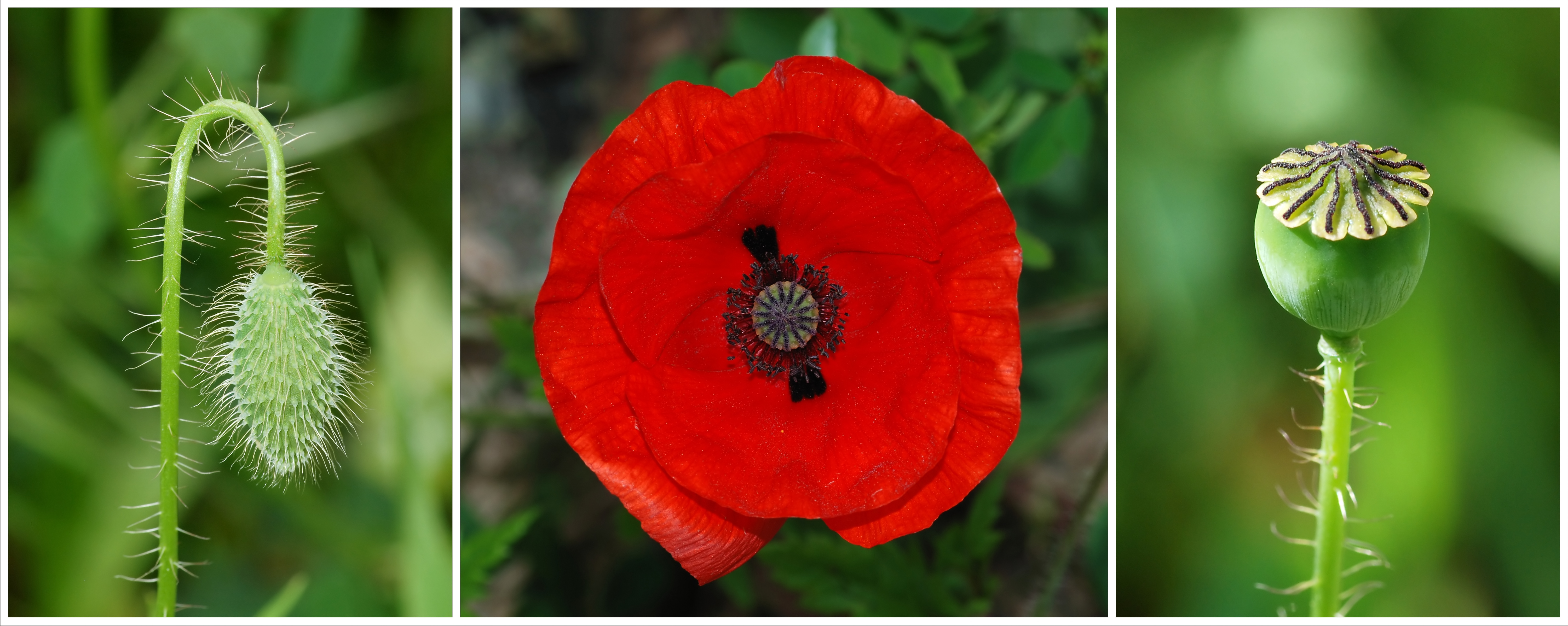 A poster showing three different stages of a Common Poppy flower (Papaver rhoeas): bud, flower and fruit (capsule).